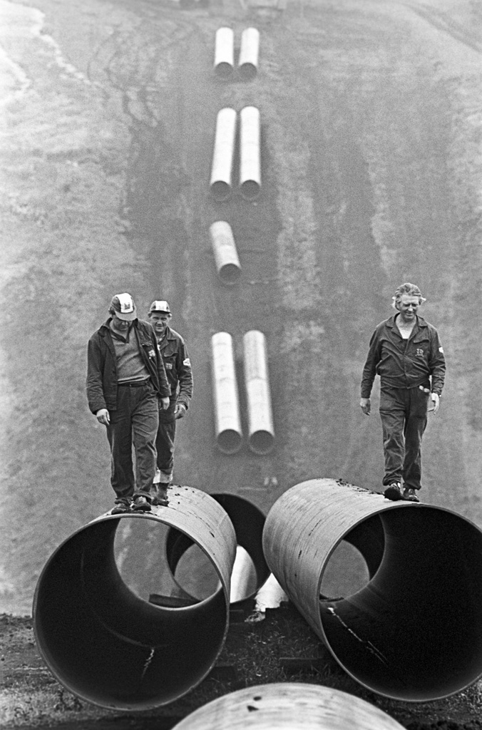 “Orenburg-Western Border Pipeline”. Workers walking on the Orenburg-Western Border Pipeline.